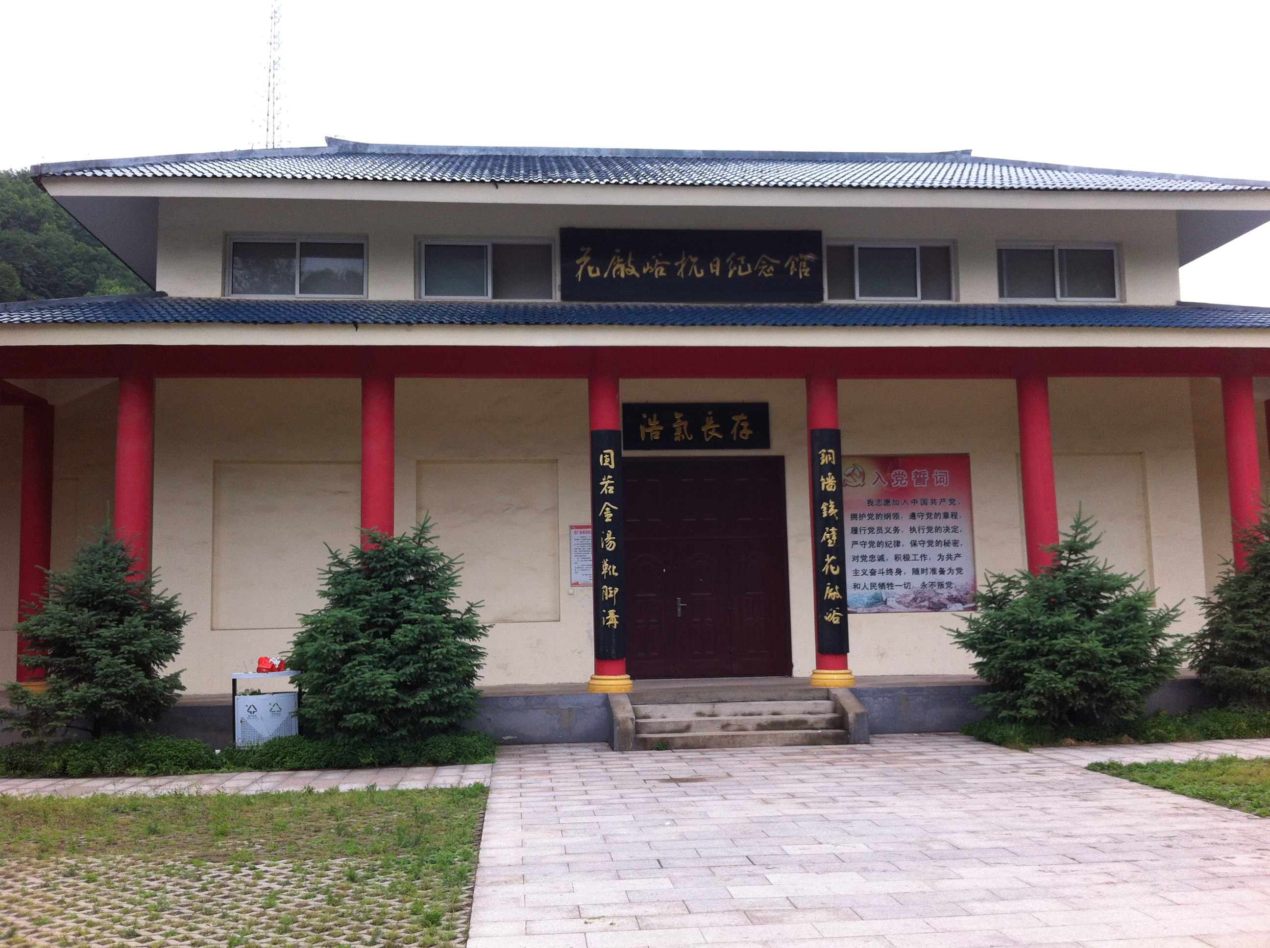 An anti-Japanese war museum in Huachangyu, Qinhuangdao. Open from 9:00 AM.